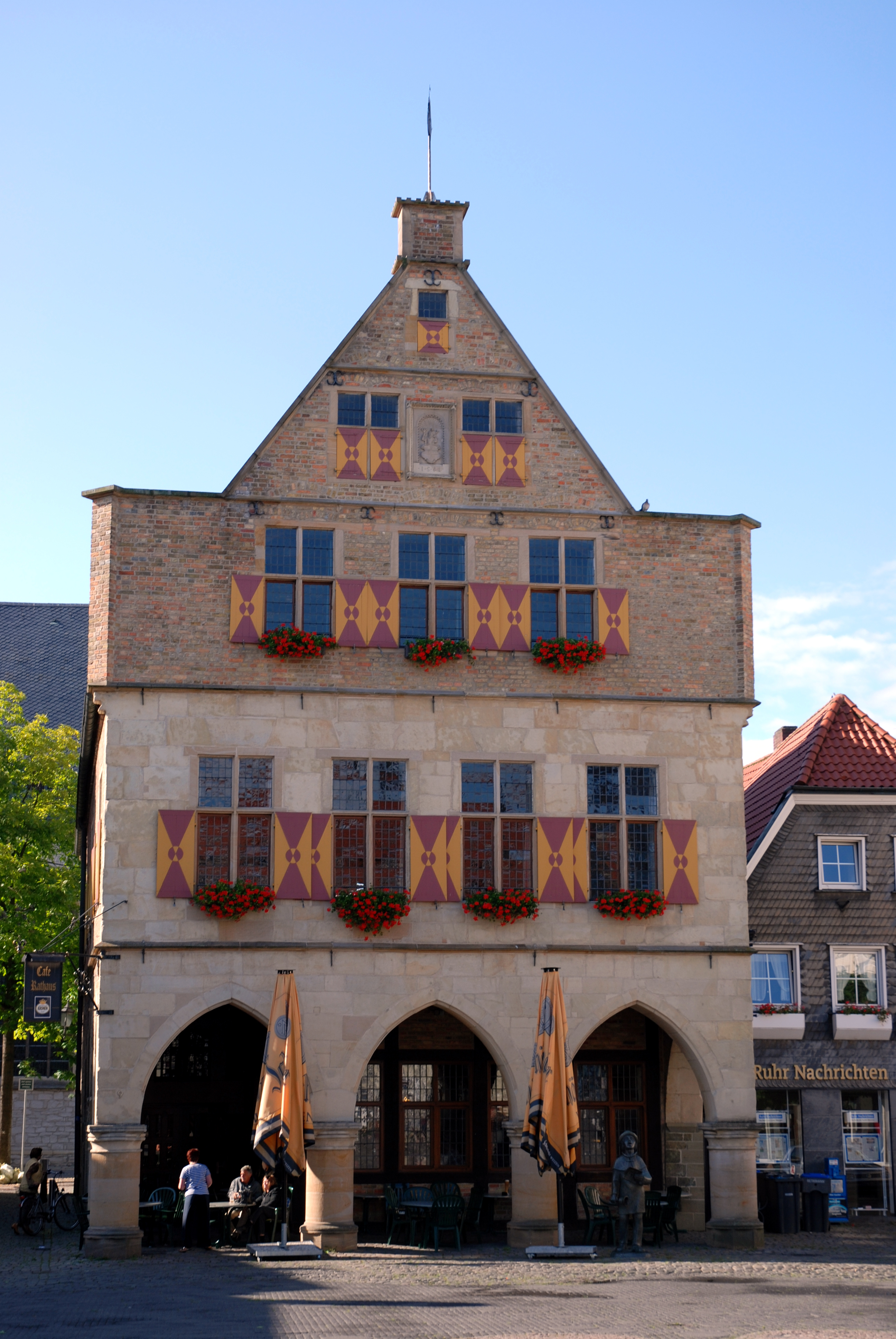 Town hall and market place of Werne